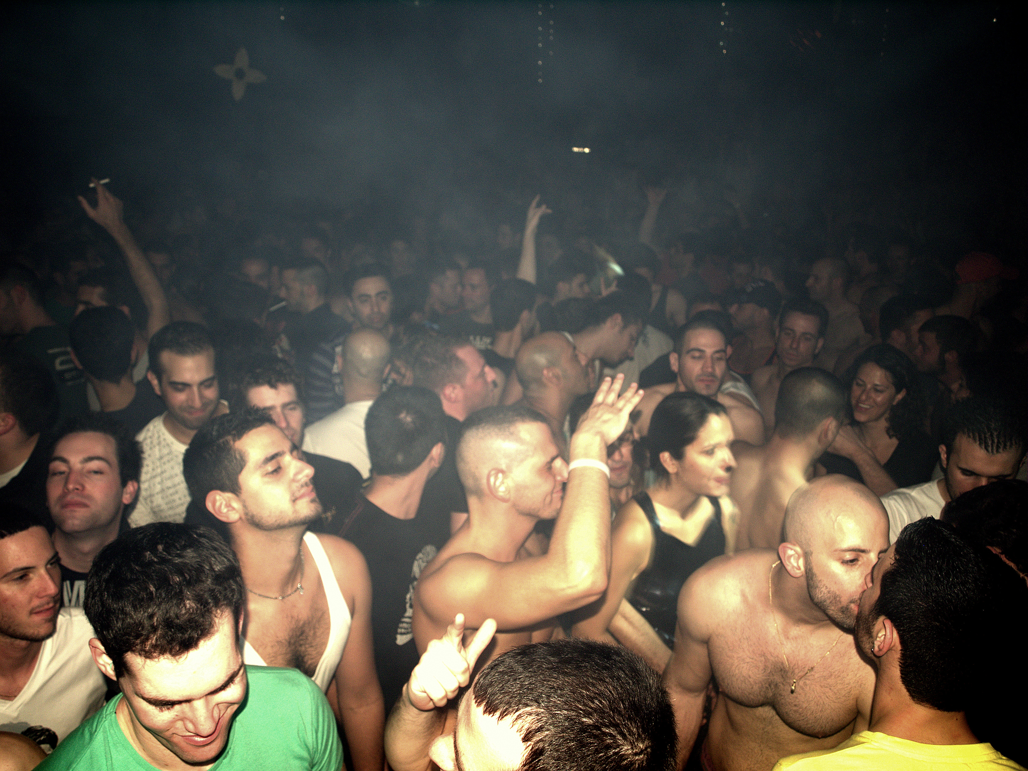 Patrons at nightclub TLV in Tel Aviv, Israel when Offer Nissim was spinning.